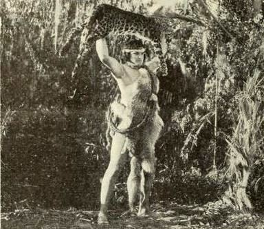 Still from the American film serial The Adventures of Tarzan (1921) with Elmo Lincoln, on page page 2 of the June 13, 1921 Film Daily.